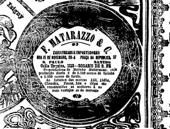 Article published in O Estado de S. Paulo in June 5th, 1904, page.7